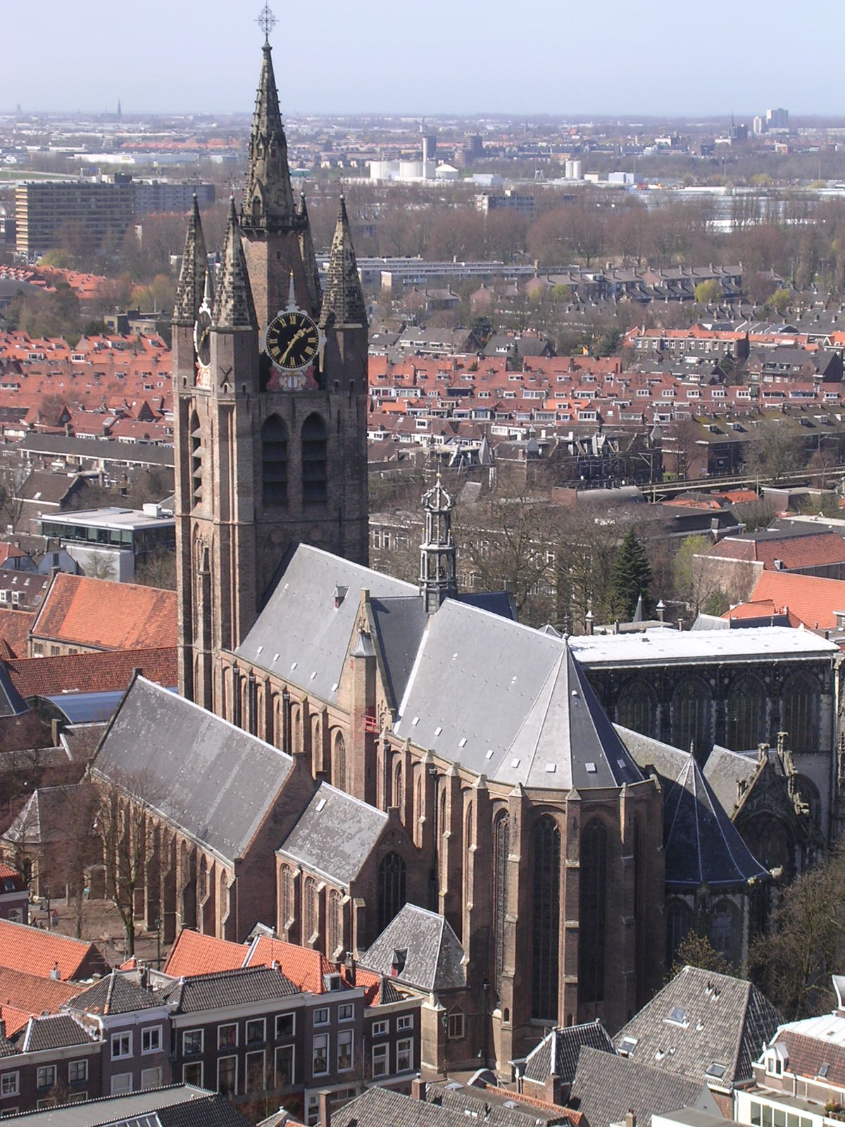 Oude Kerk (Delft, Netherlands) viewed from the tower of the Nieuwe Kerk